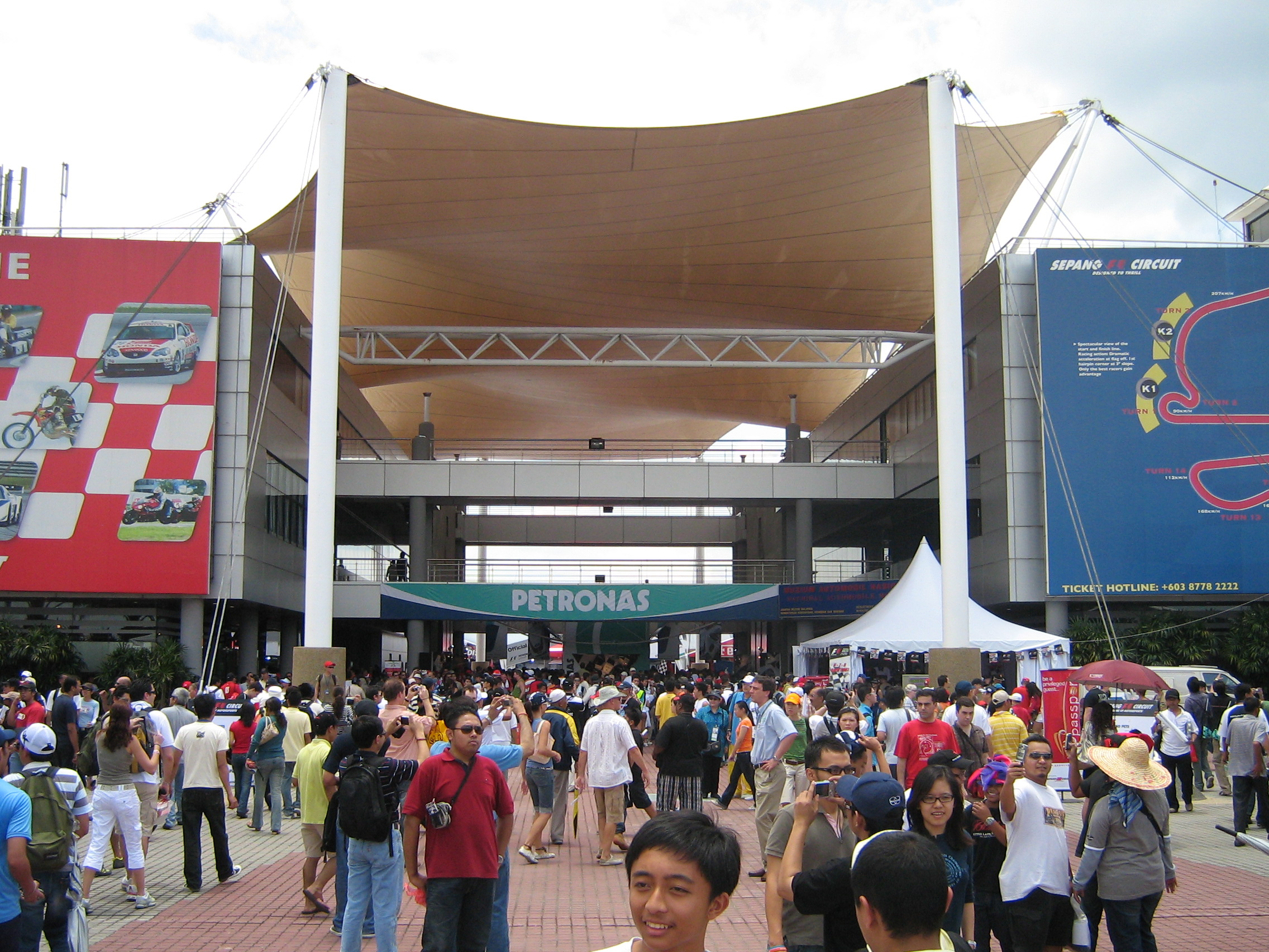 formula 1, sepang international circuit, malaysia